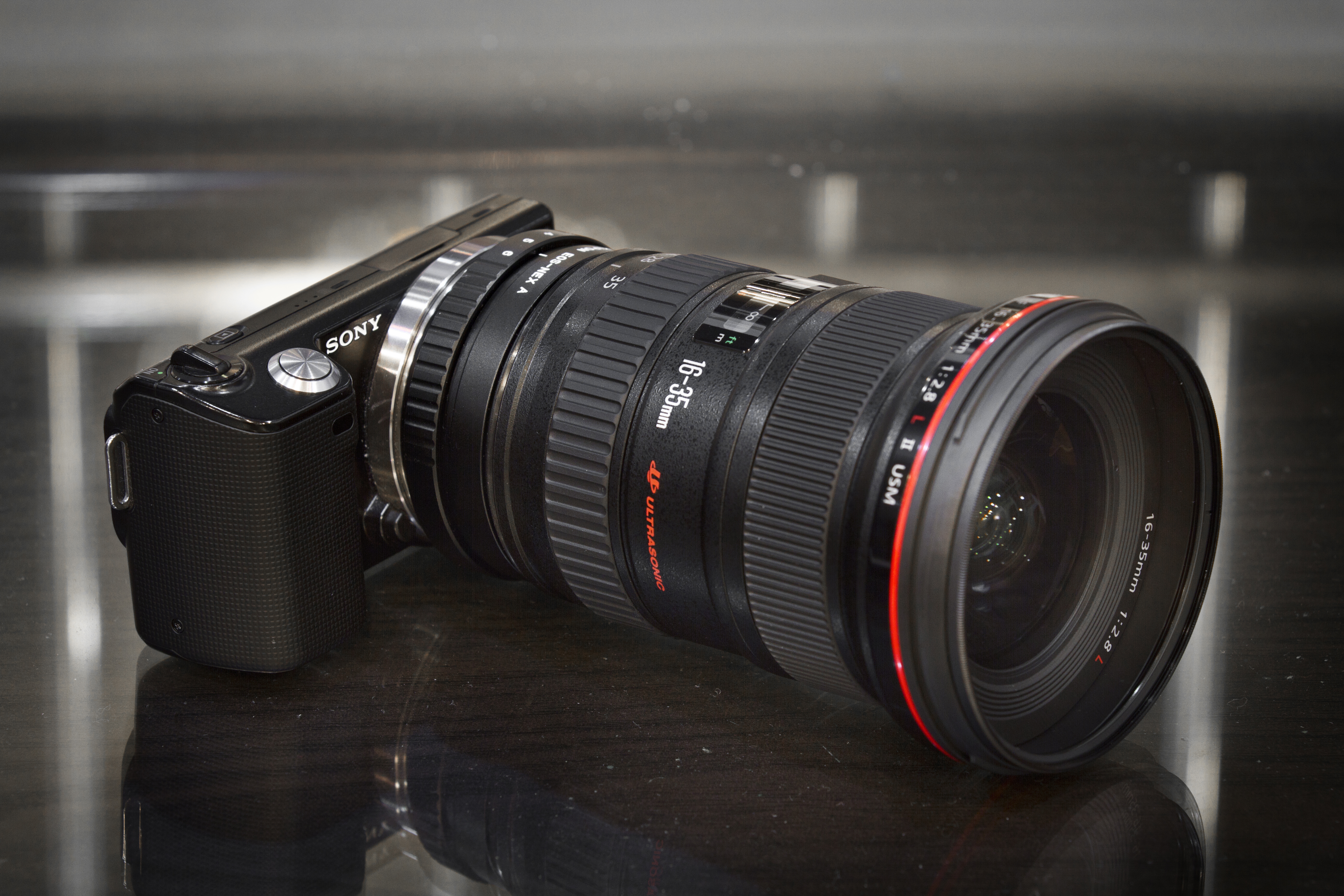 Canon EF 16-35mm f2.8L IS on Sony NEX-5c